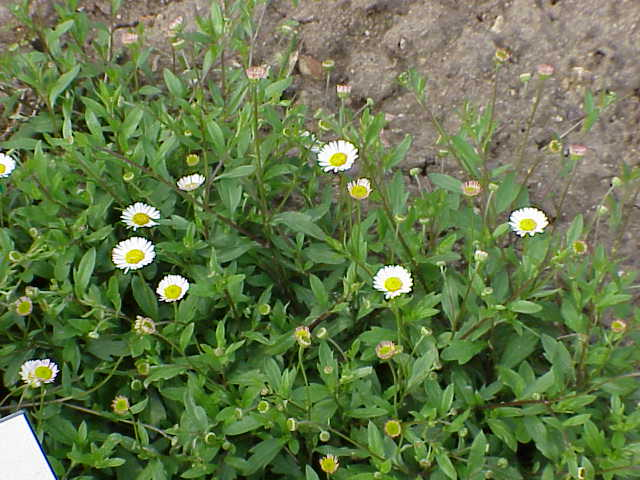 Species: Erigeron karvinskianus Family: Asteraceae Image No. 4